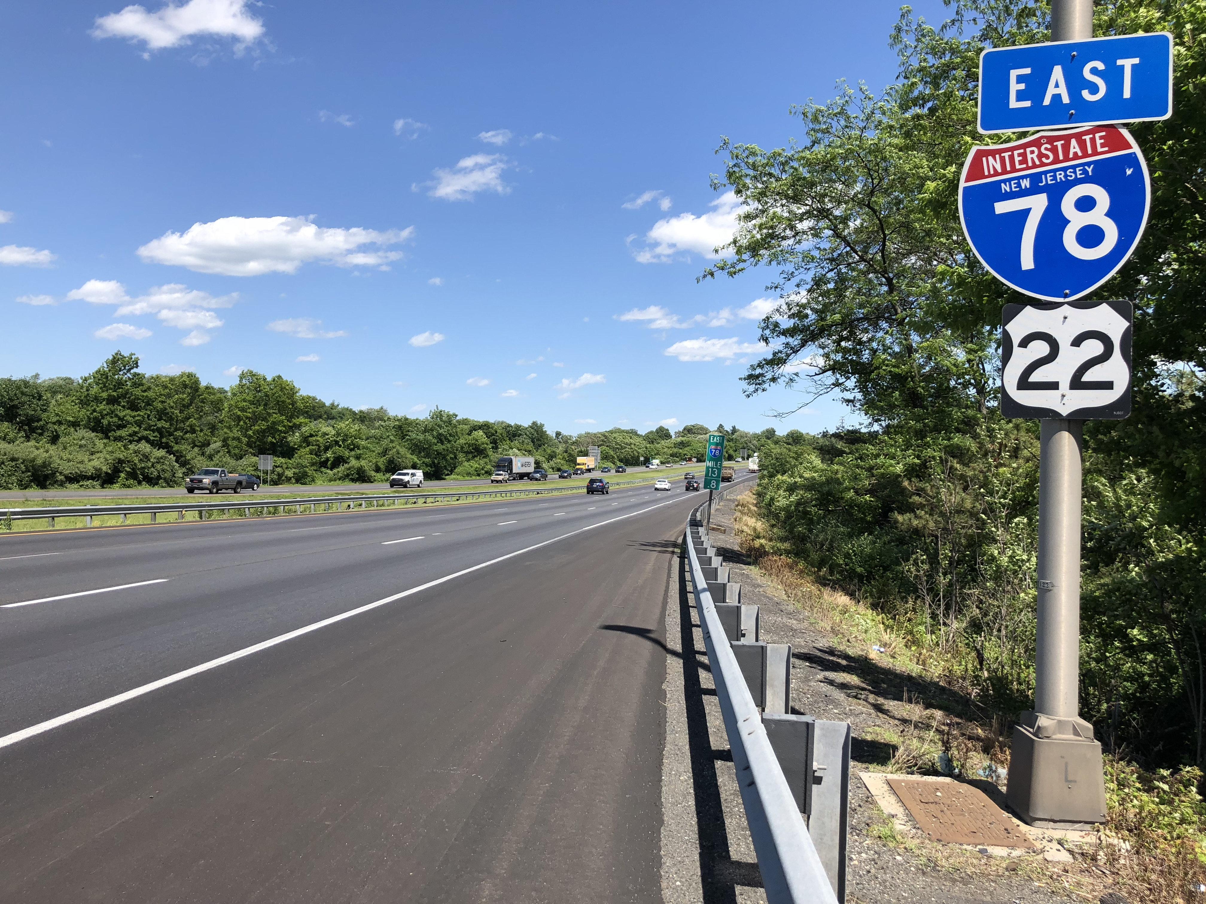 View east along Interstate 78 and U.S. Route 22 (Phillipsburg-Newark Expressway) just east of Exit 12 in Union Township, Hunterdon County, New Jersey